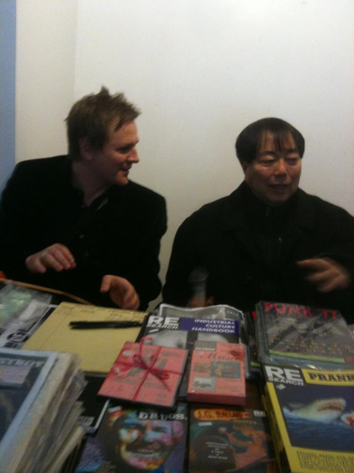 Influential indie publisher V. Vale (right) gives pointers to fellow publisher Lorin Morgan-Richards (left), at ZineFest, Los Angeles, 2012.